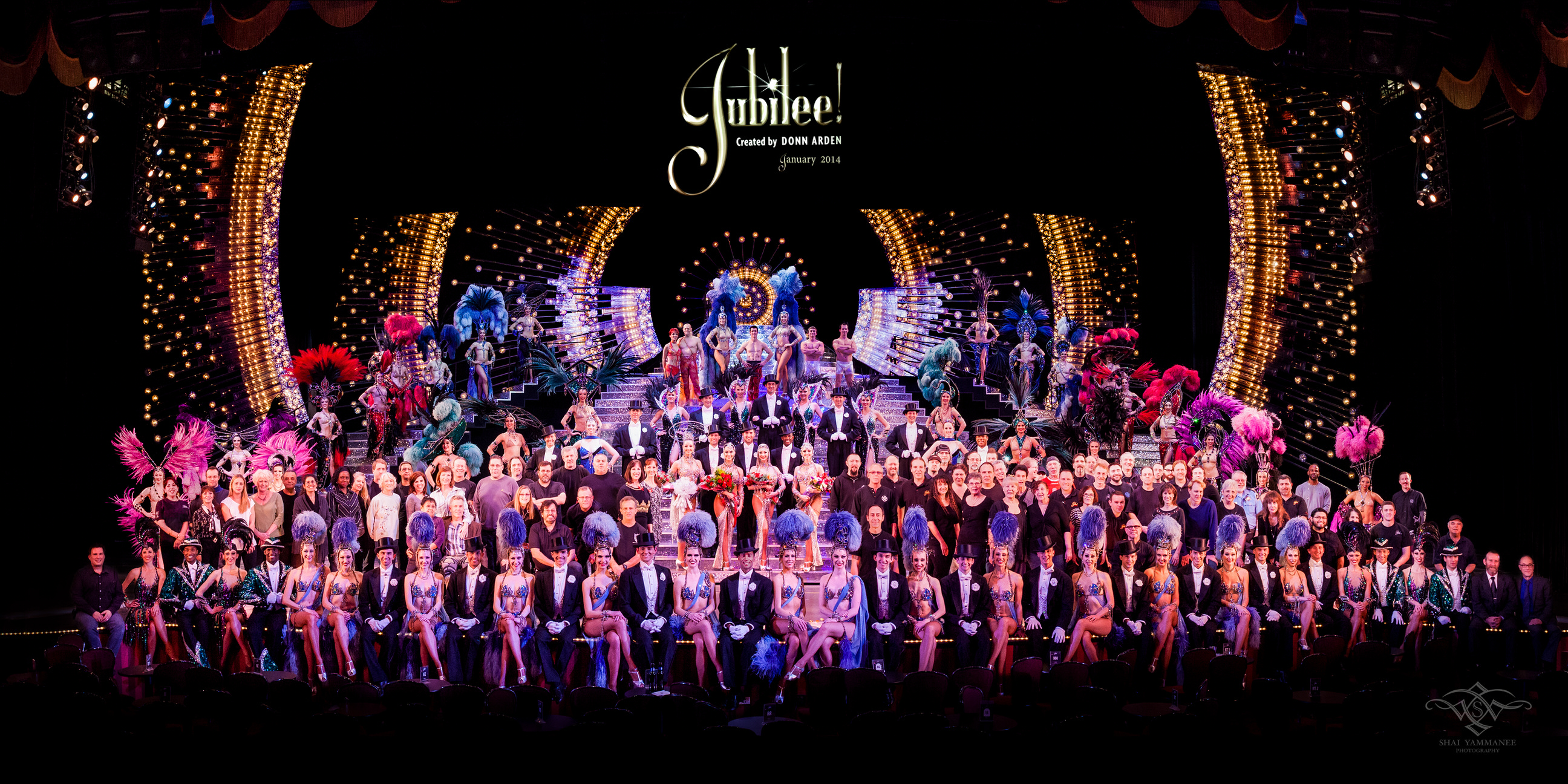 This is the full cast and crew of the show Jubilee! in 2014